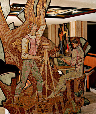 Mosaics previously in the Mercantile National Bank Building, Dallas, created by artist Millard Sheets.